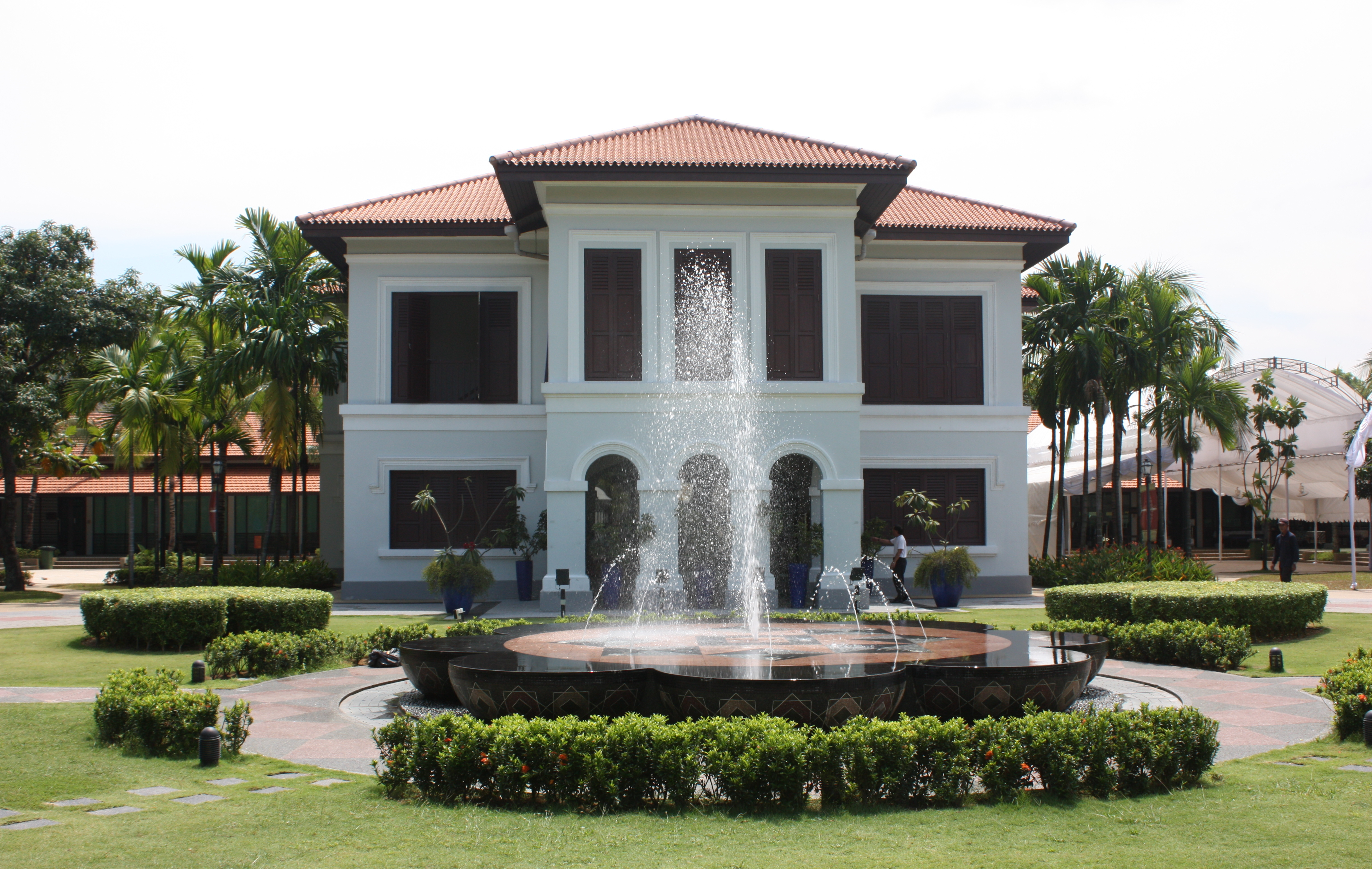 The Istana Kampong Glam at the Malay Heritage Centre in Singapore taken by Wolfgang Holzem /